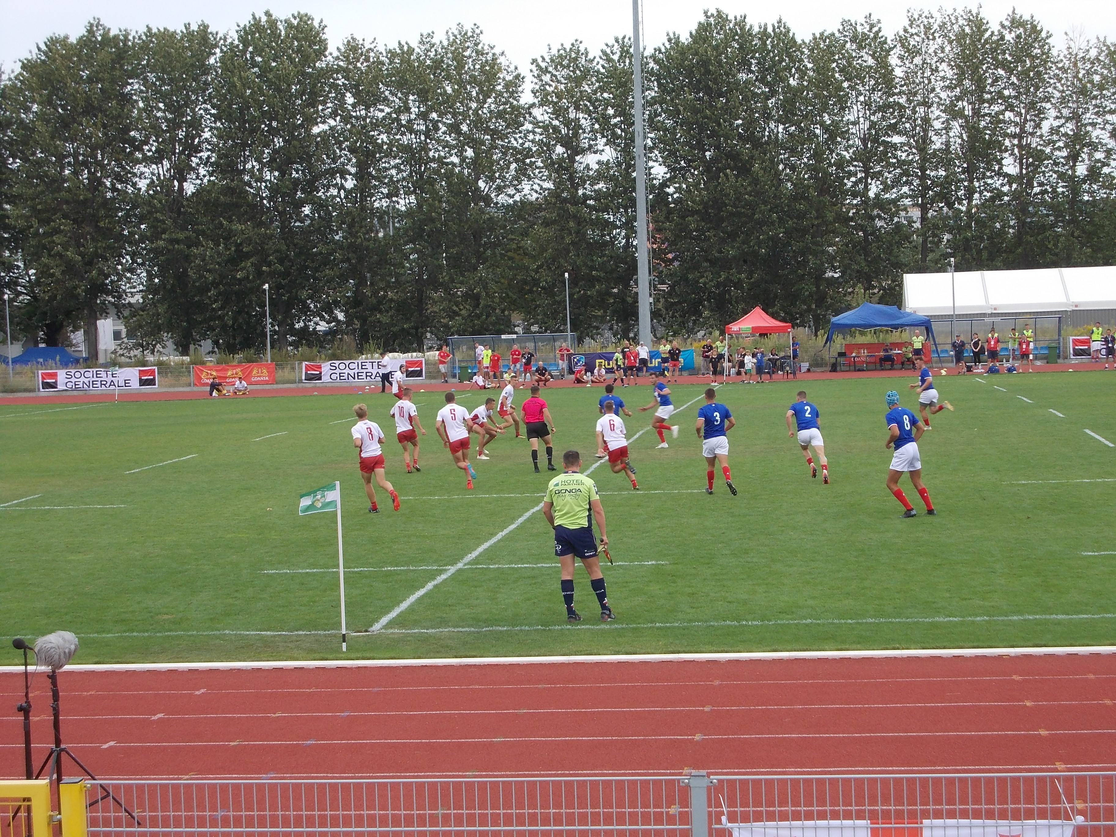 2019 Rugby Europe Men Under 18 Sevens Championship in Gdańsk